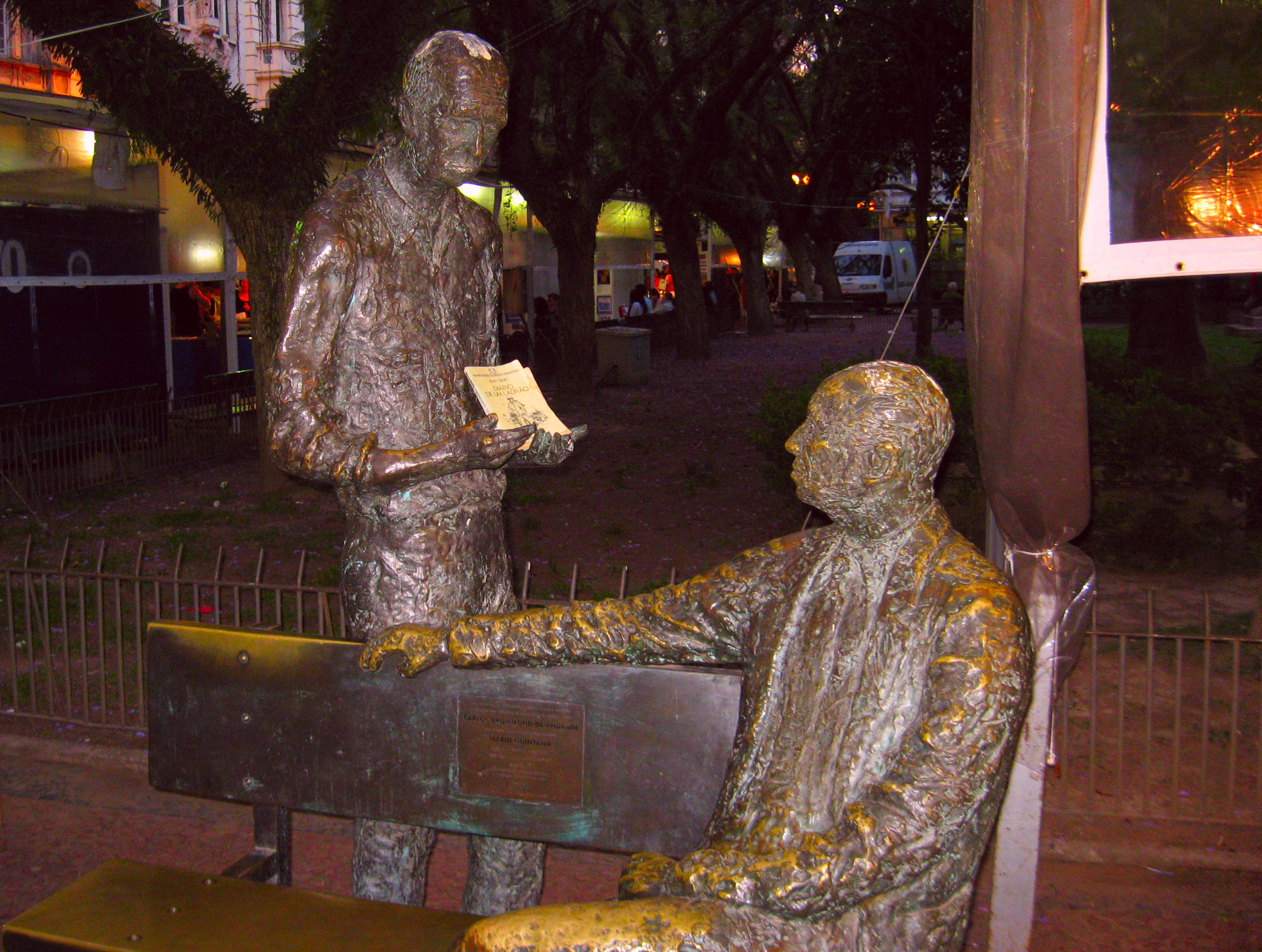 Two Poets. Standing, Carlos Drummond de Andrade. Sitting, Mário Quintana. Drummond had a metal book in his hands, which was stolen. People now always put a book in his hands. The one in the photo is "Journal of the Thief", from Jean Genet. Porto Alegre - Brasil